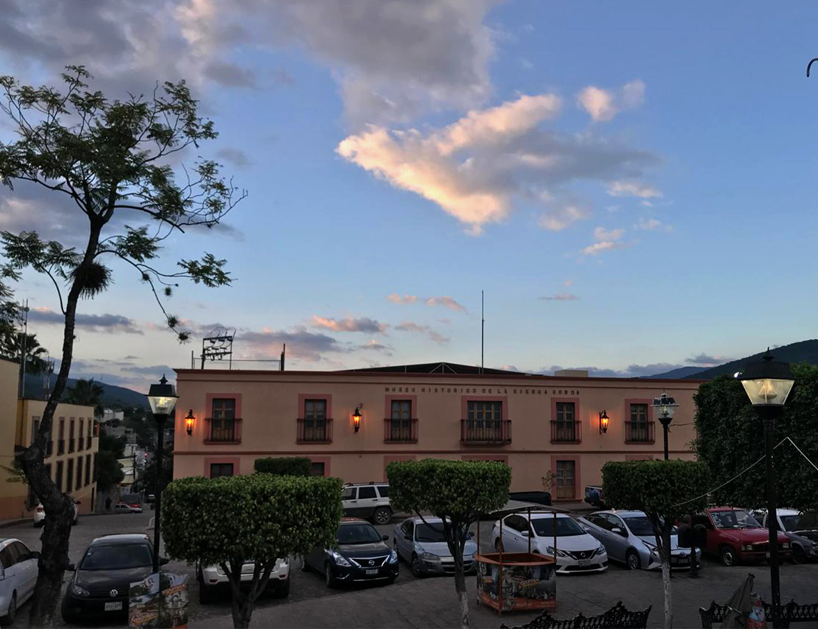 the main facade of the historic museum of the Sierra Gorda in Jalpan in Querétaro México taken from the wall of the atrium of Misión Santiago de Jalpan